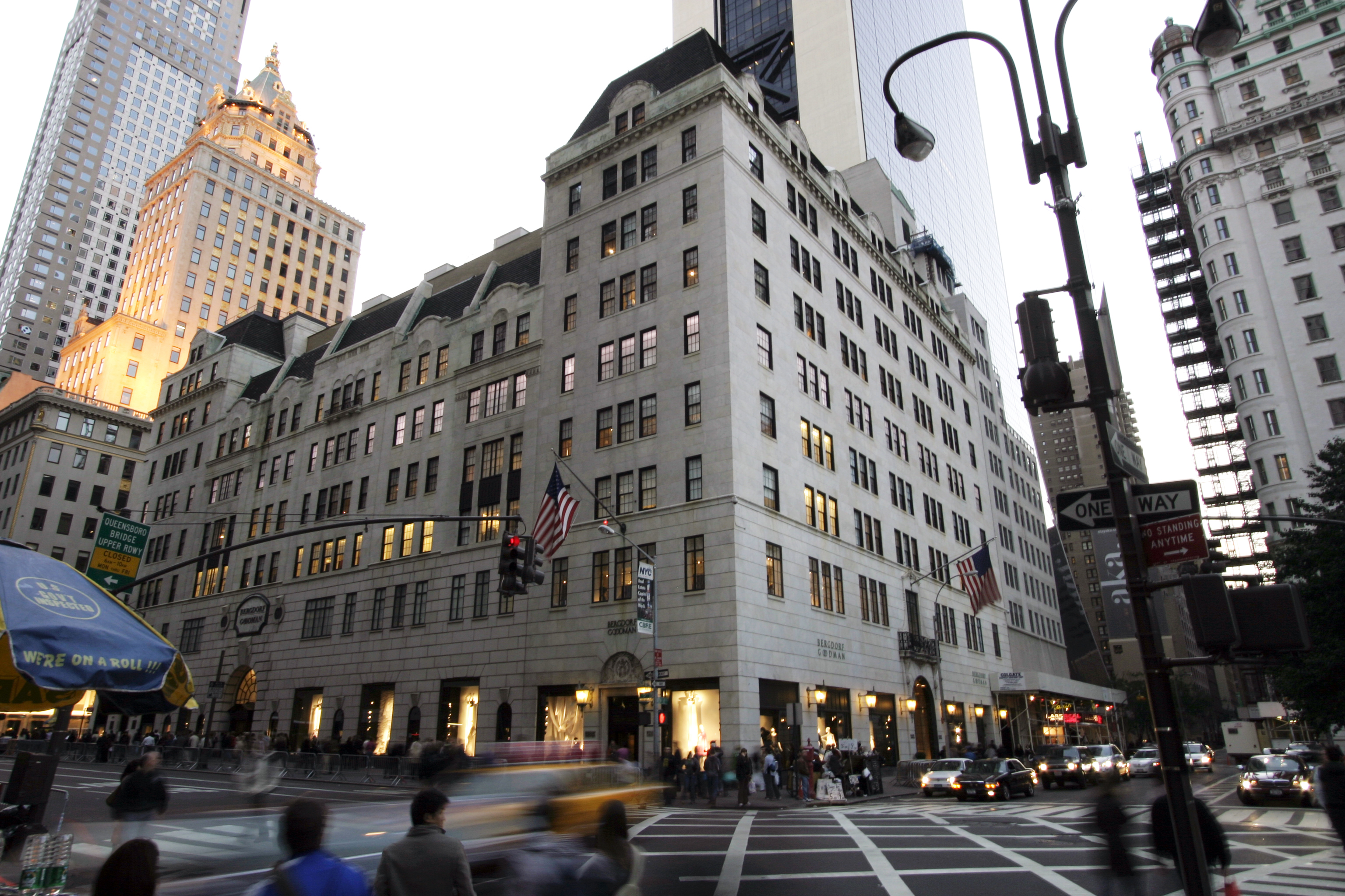 Bergdorf Goodman department store on Fifth Avenue from 57th to 58th Streets designed in 1928 by architects Kahn & Jacobs. The facade is faced with white marble and is described as a mansion-style commercial building.